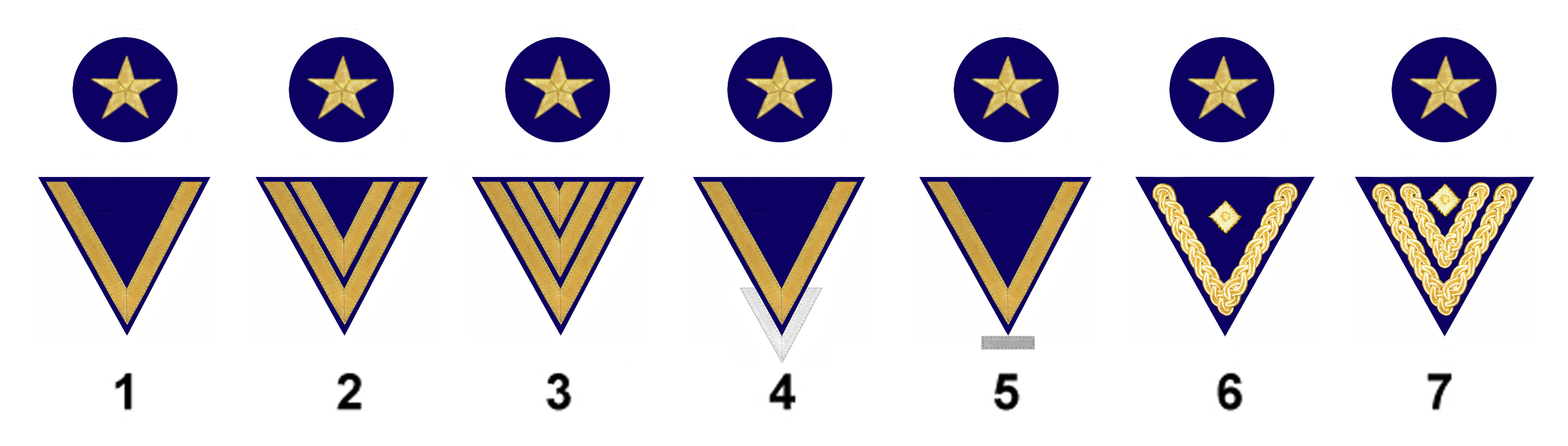 Military rank insignia of the German Kriegsmarine until 1945, here sleeve insignia enlisted men Matrosengefreiter OR-2: one golden angle on dark-blue padding Matrosenobergefreiter OR-3b: two golden telescoped angles on dark-blue padding Matrosenhauptgefreiter OR-3a: (with 4 ½ years time-in-service) three golden telescoped angles on dark-blue padding Matrosengefreiter as Unteroffizier Aspirant (UA): silvery half-angle, indicating Petty Officer training past Matrosengefreiter as Unteroffizier Aspirant (UA): silvery bar, indicating Petty Officer training in progress Matrosenstabsgefreiter OR-4b: one golden bound angle, above one golden square star, on dark-blue padding (with 6 years time-in-service) Matrosenoberstabsgefreiter OR-4a: two golden bound telescoped angles, above one golden square star, on dark-blue padding (with 8 years time-in-service)